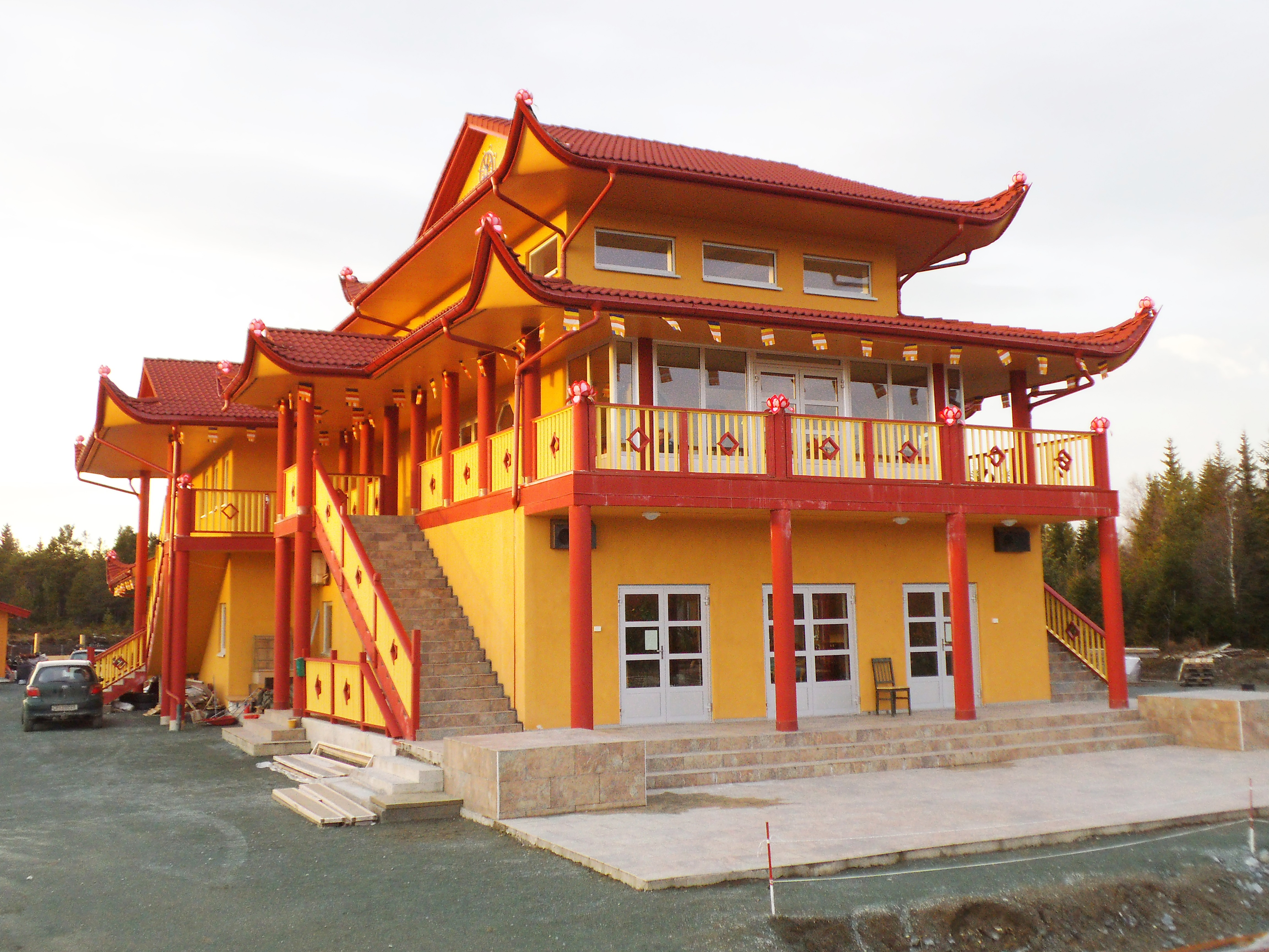 The Buddhist Don Hau Temple at Tiller outside Trondheim.